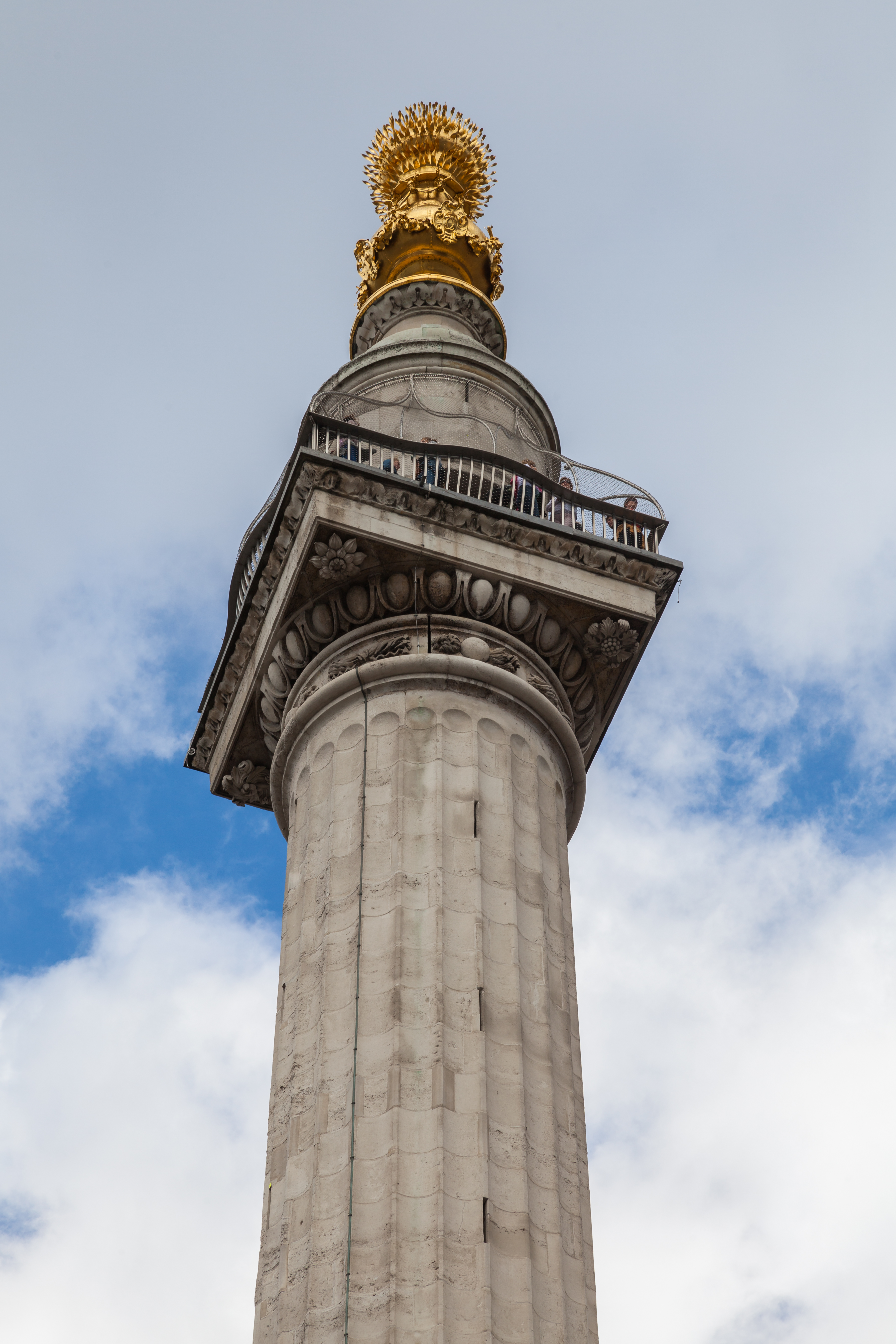 The Monument to the Great Fire of London, London, England